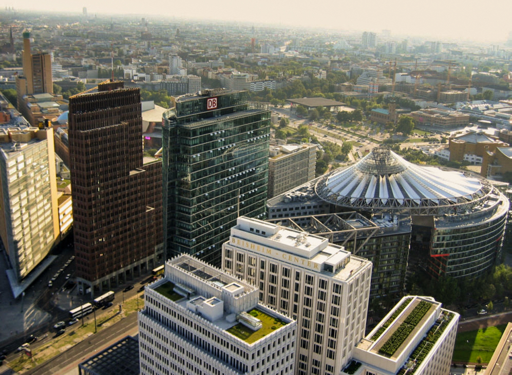 Potsdamer Platz, Berlin (bird's eye view)